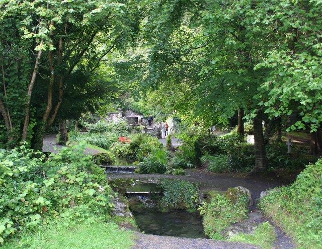 Holywell near Tobernalt Bay. Used by Roman Catholics as a church when the English had banned their church services. Here there are several places with statues of Jesus, Mary and Anne (Mary's mother) where one can light candles and pray. Some also kissed the stone in the middle of the picture. A holly tree had many ribbons hanging from its branches.